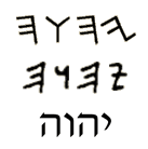 Tetragrammaton in Paleo-hebrew, ancient Aramaic and modern Hebrew scripts.